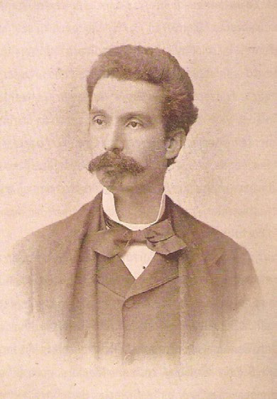 Joaquim de Vasconcelos (1849-1936), Portuguese historian and art critic, in an 1894 photograph